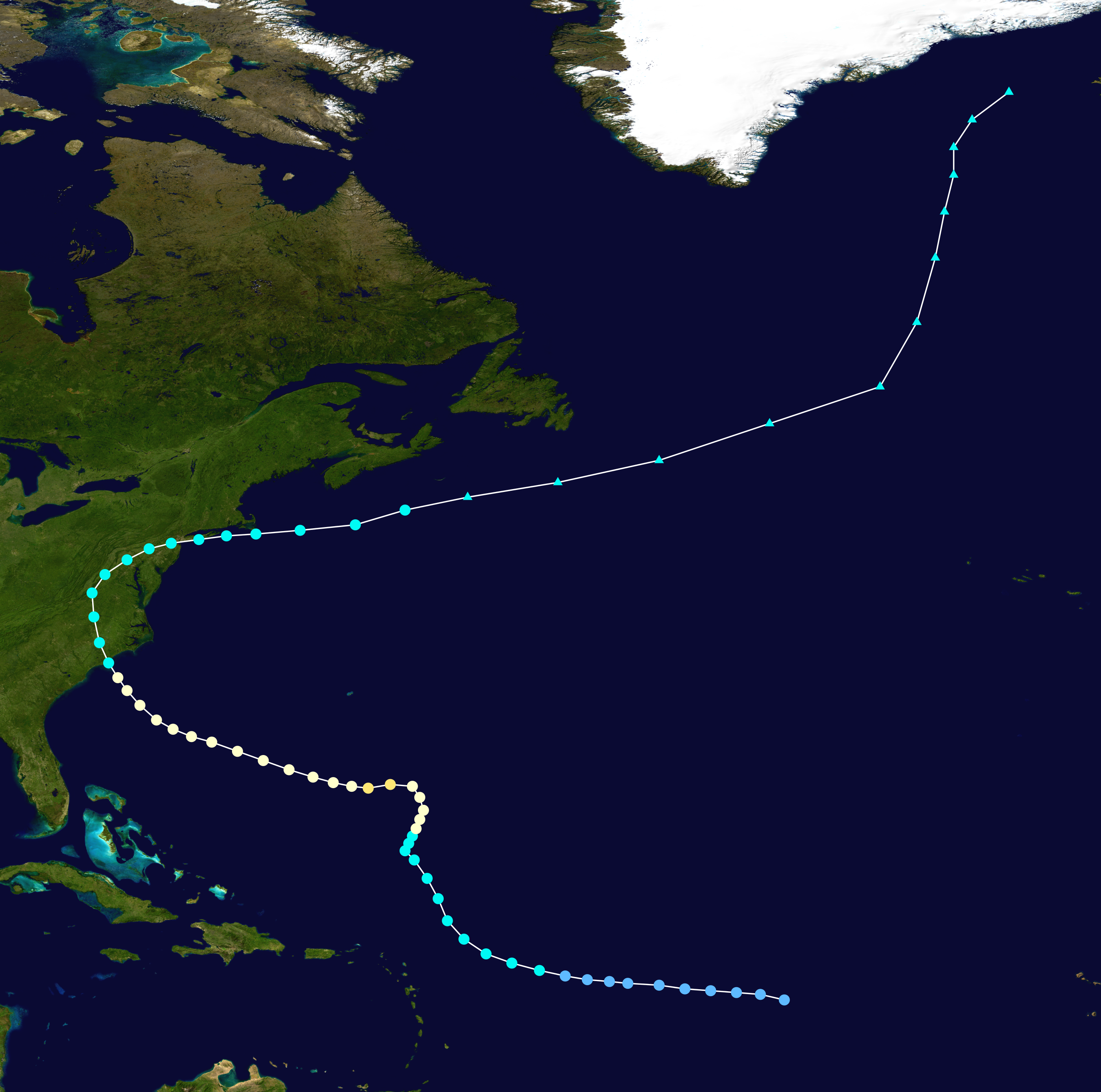 Track map of Hurricane Diane of the 1955 Atlantic hurricane season. The points show the location of the storm at 6-hour intervals. The colour represents the storm's maximum sustained wind speeds as classified in the Saffir–Simpson scale (see below), and the shape of the data points represent the nature of the storm, according to the legend below. Saffir–Simpson scale Tropical depression≤38 mph≤62 km/h Category 3111–129 mph178–208 km/h Tropical storm39–73 mph63–118 km/h Category 4130–156 mph209–251 km/h Category 174–95 mph119–153 km/h Category 5≥157 mph≥252 km/h Category 296–110 mph154–177 km/h Unknown Storm typeTropical cycloneSubtropical cycloneExtratropical cyclone / Remnant low / Tropical disturbance